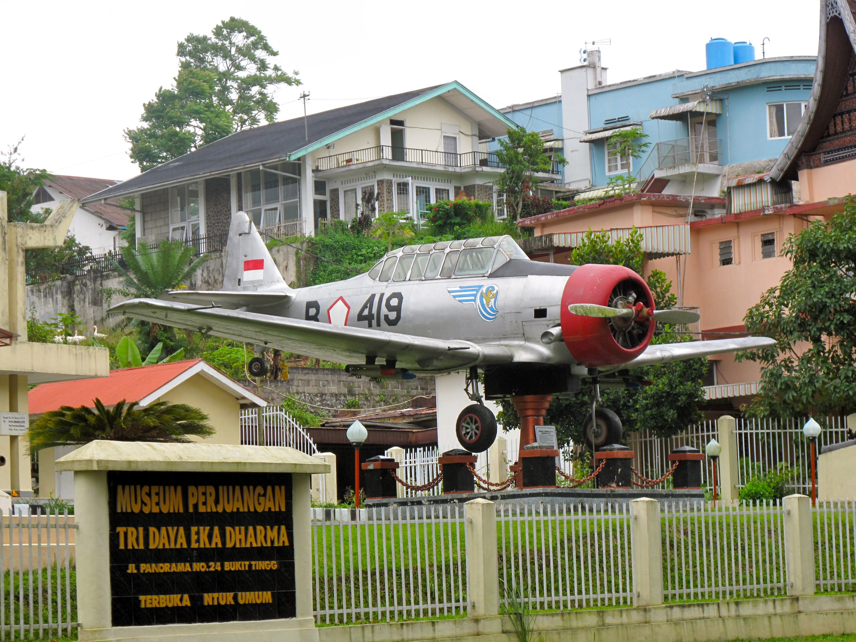 Tri Daya Eka Dharma Museum, Bukittinggi, West Sumatra, Indonesia